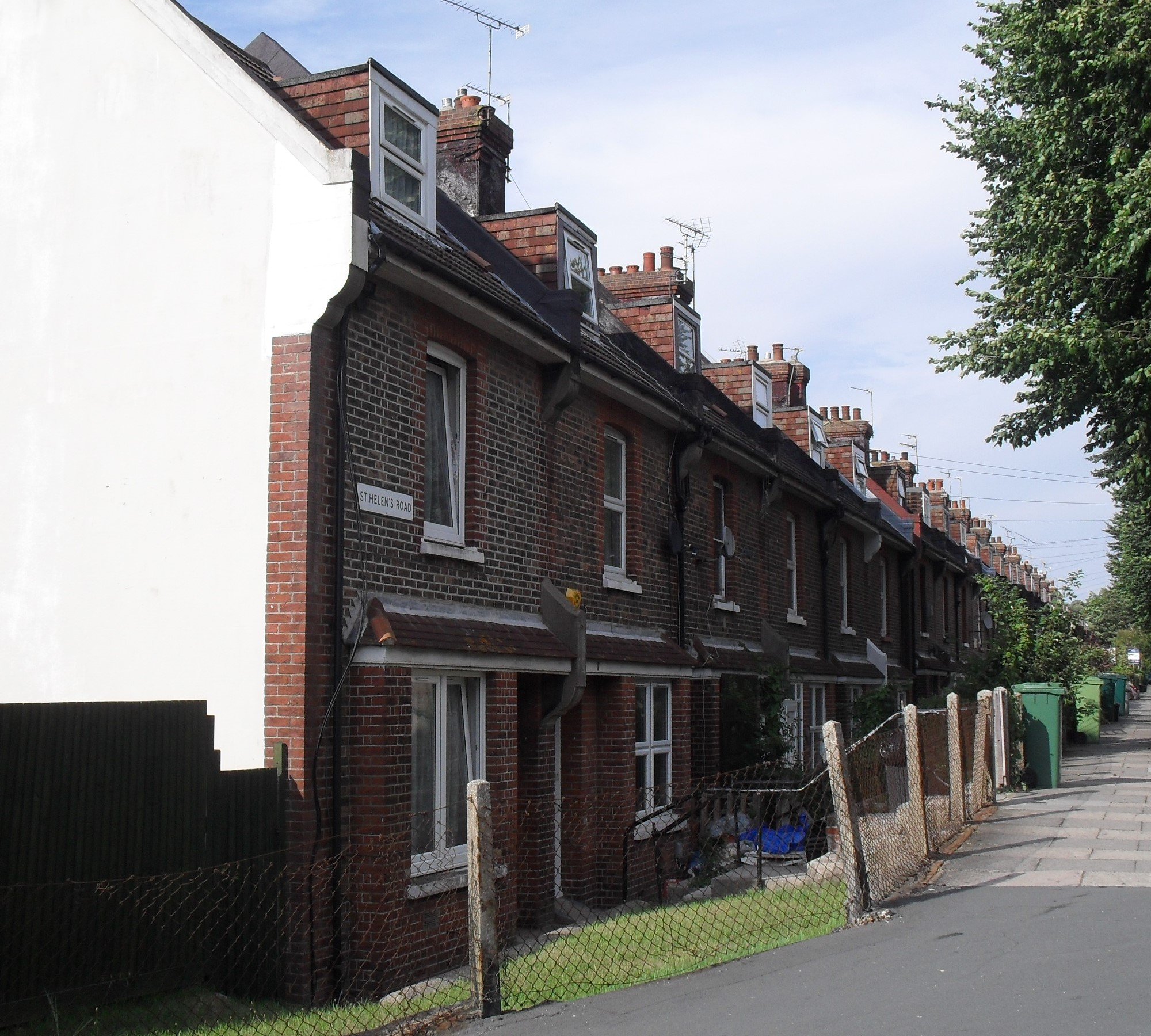 The former council houses of St Helen's Road, Brighton, City of Brighton and Hove, England. These were the first council houses in Brighton; they were built in 1897.